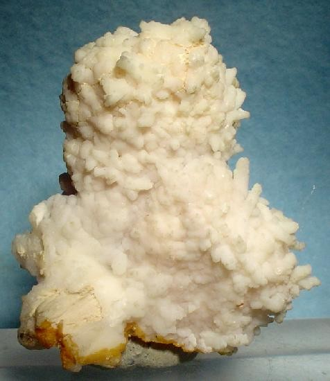 Kutnohorite Locality: Wessels Mine (Wessel's Mine), Hotazel, Kalahari manganese fields, Northern Cape Province, South Africa (Locality at ) Size: 4.7 x 4.3 x 3.0 cm. An EXCELLENT, showy, complete all-around stalactite of massive kutnohorite covered with pastel-pink, crystalline kutnohorite from the famous Wessels Mine of South Africa.